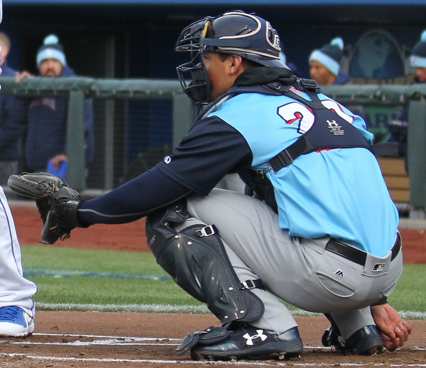 Ramon Torres bats for the Omaha Storm Chasers and Jacob Nottingham (right) of the Colorado Spring Sky Sox catches during a 2018 game at Werner Park in Omaha.